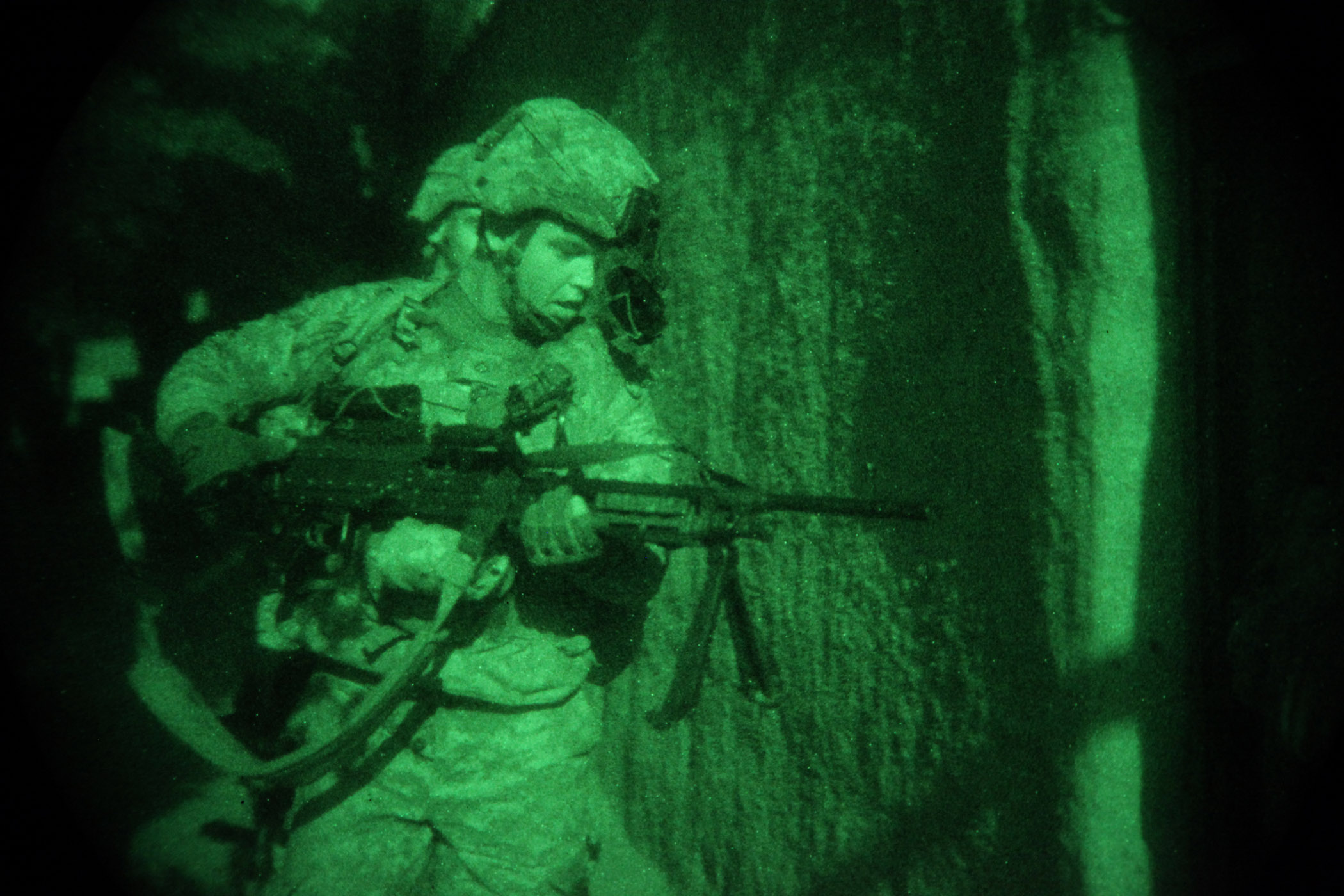 U.S. Army Pfc. Branden Hazuka, assigned to 2nd Battalion, 377th Parachute Field Artillery Regiment, 4th Brigade Combat Team, 25th Infantry Division, searches a qallat, or an Afghan home, for explosives and weapons during an air assault mission in Khost province, Afghanistan during Operation Champion Sword, Aug. 2. Afghan national security forces and International Security Assistance Forces teamed up for the joint operation, targeting specific militants in eastern Afghanistan.